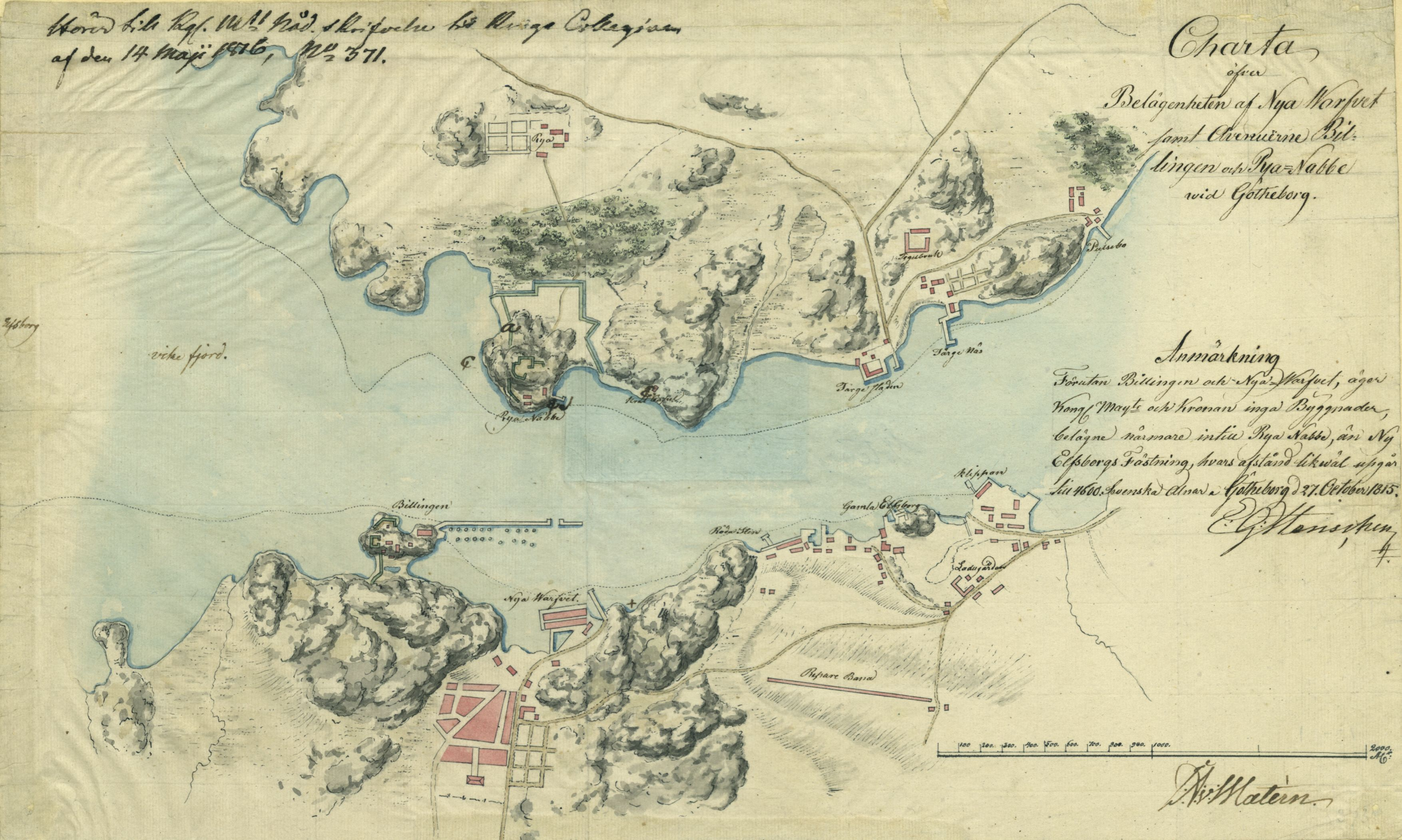 Map showing the fortifications at Gothenburg naval base Nya Varvet, and gun battery Rya Nabbe in Sweden 1815.